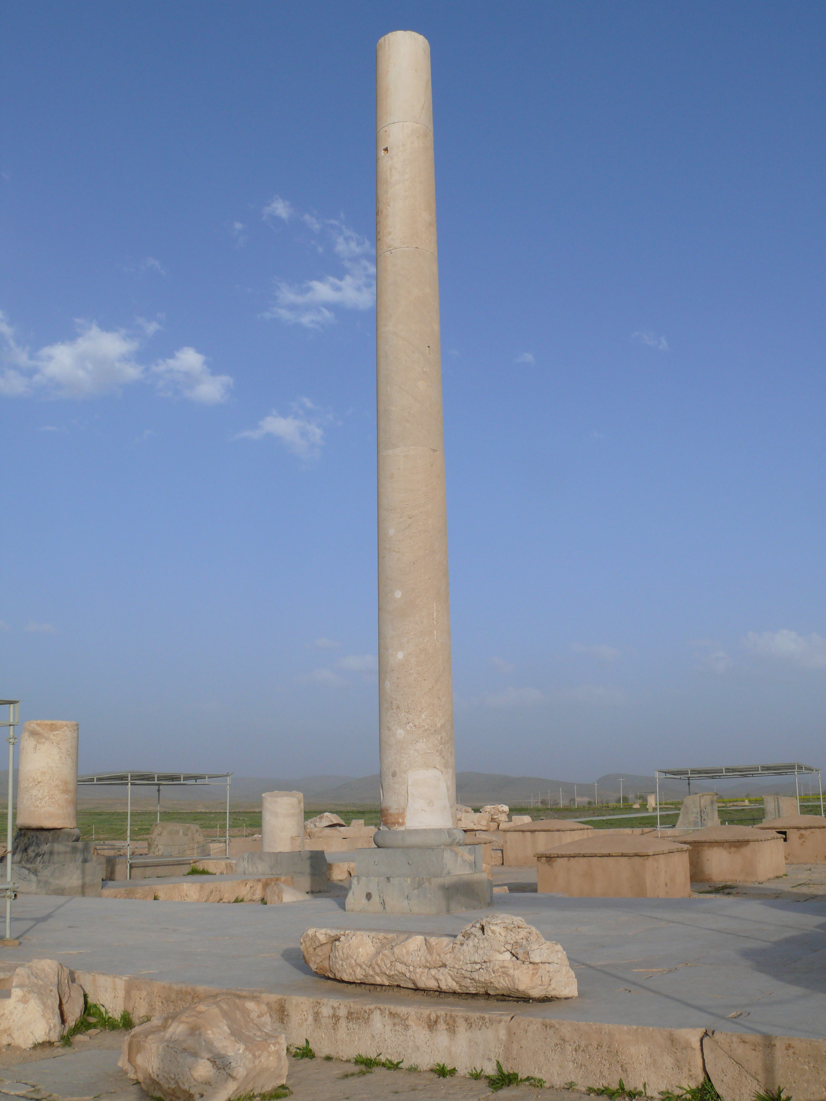 I am the column, the last one. Cyrus made me, I stand to testify. I was raised at Pasargades, the ancient capital of the achaemenian empire. I holded the roof of a royal palace, over the head of the king of Anshan and Parsumar, king of kings, great king. I was surounded by a gorgeous garden that gave paradise its name. Cyrus the Great made me, and I survived invasions and earthquakes. Mankind forgot me for centuries, but now can I testify again of the past's magnifiscence and beauty. The Sivand dam threatens me, but I don't care: I am noble and will remain, king's finger forever turned to the sky. Cyrus made me, I, his legacy, will stand to testify.